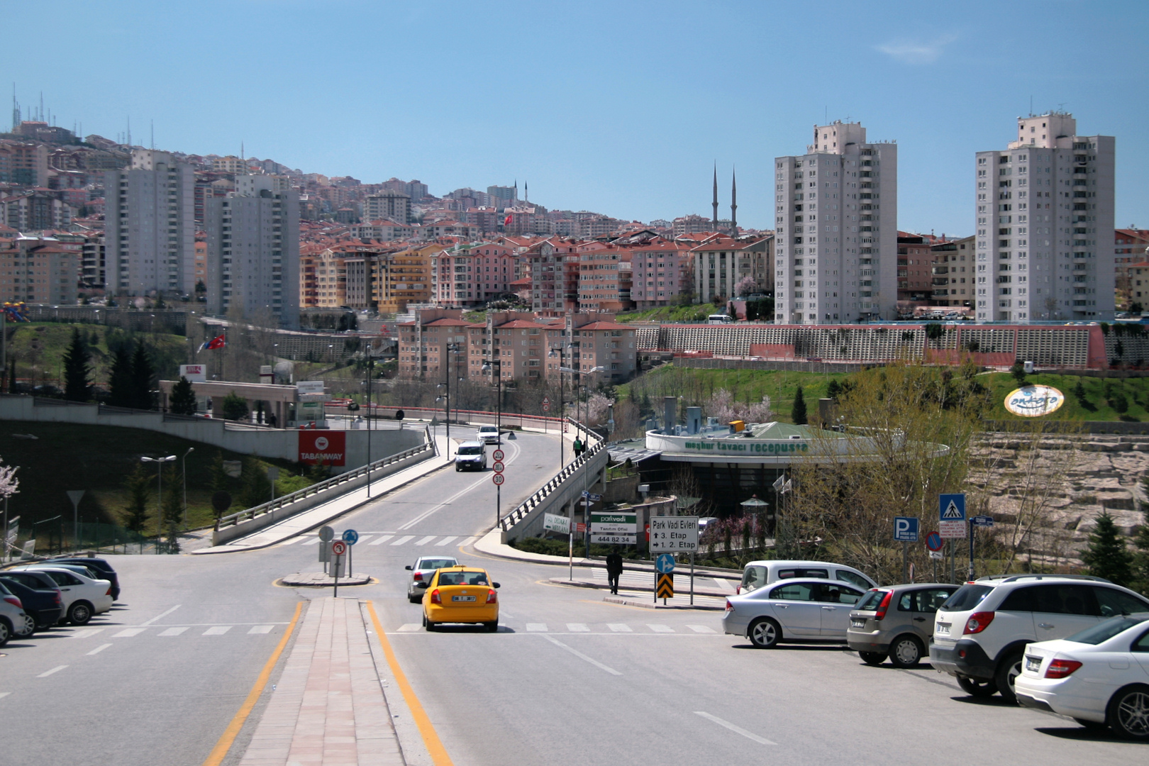 View from the Dikmen neighbourhood of Ankara, one of the best city views in Ankara.